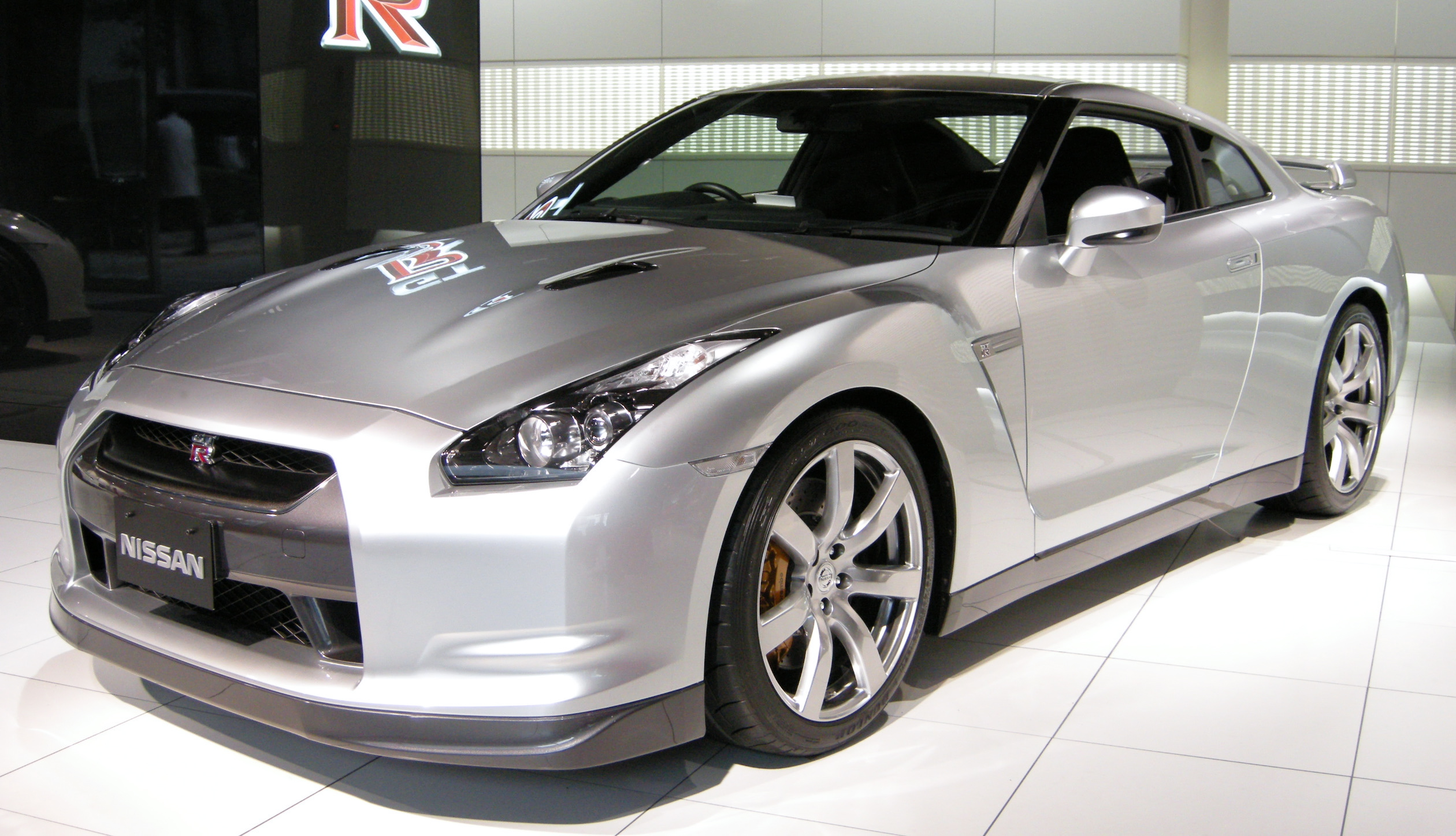 Nissan GT-R photographed in Nissan Gallery (Chuo, Tokyo)